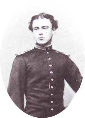 The pictures shows Paul of Thurn and Taxis at the age of 20. The picture was taken at the occasion of the 25th wedding anniversary of his parents on January 24, 1864